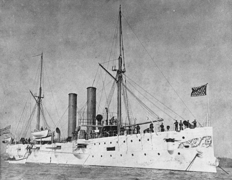 Photo #: NH 54506, USS Detroit (C-10) Halftone photograph taken circa 1893-98, and published in Uncle Sam's Navy, 1898. Removed caption read: Photo # NH 54506 USS Detroit, circa 1893-98